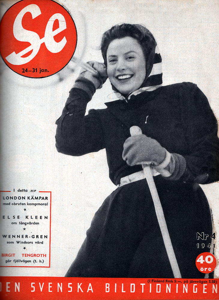 Birgit Tengroth